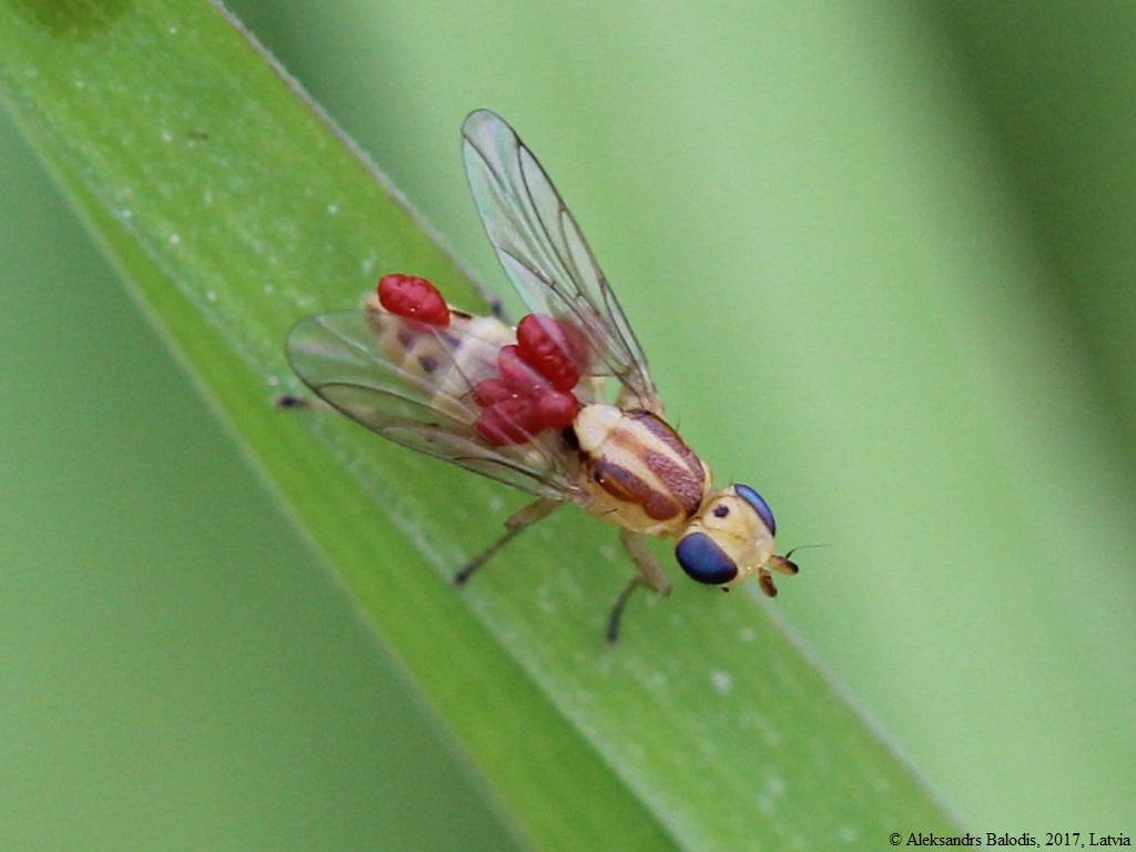 Meromyza saltatrix infected with mites.